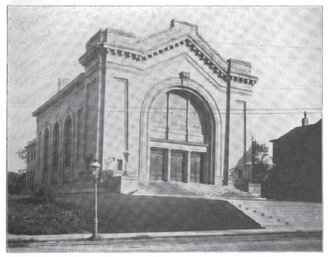 Temple Sh'Brith Israel Ahabath Achim in Reading Road, Avondale, Cincinnati, Ohio, United States, designed by Tietig and Lee.